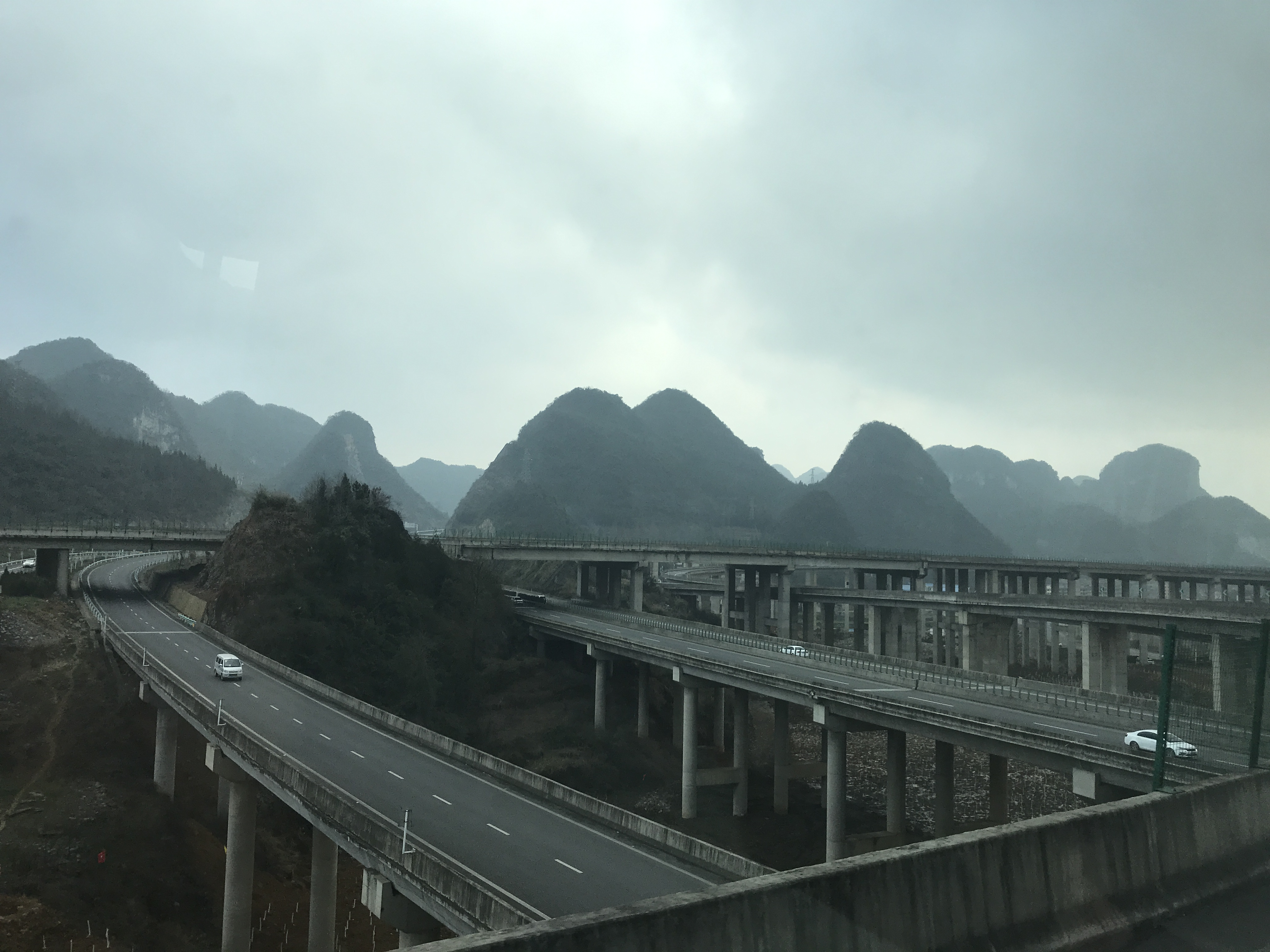 The photo is taken in Zhijin, Guizhou, at the interchange between G76 Xiamen-Chengdu Expressway and G60 Shanghai-Kunming Expressway.